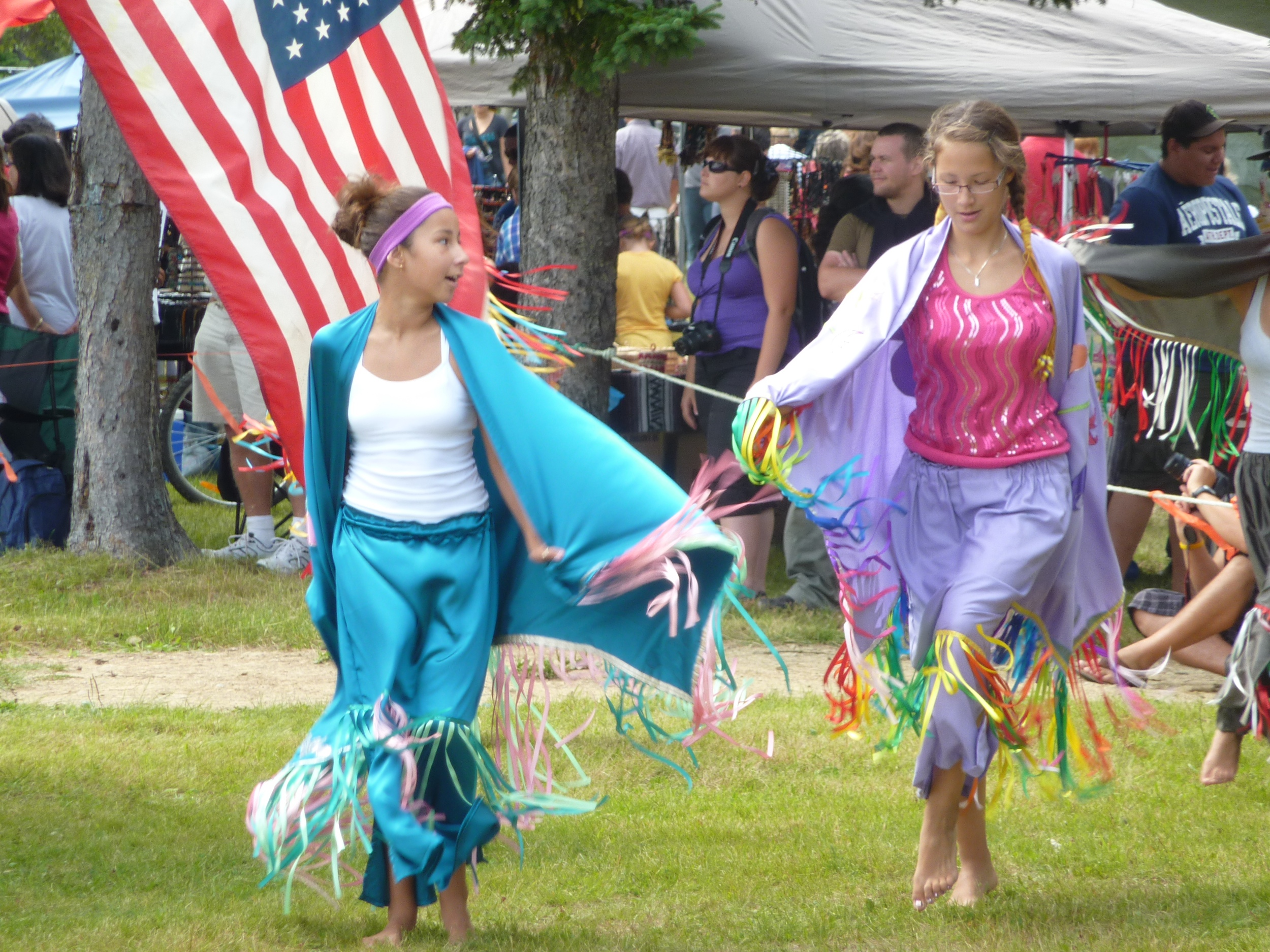 The Burnt Church (Esgenoôpetitj), New Brunswick pow-wow in 2011.